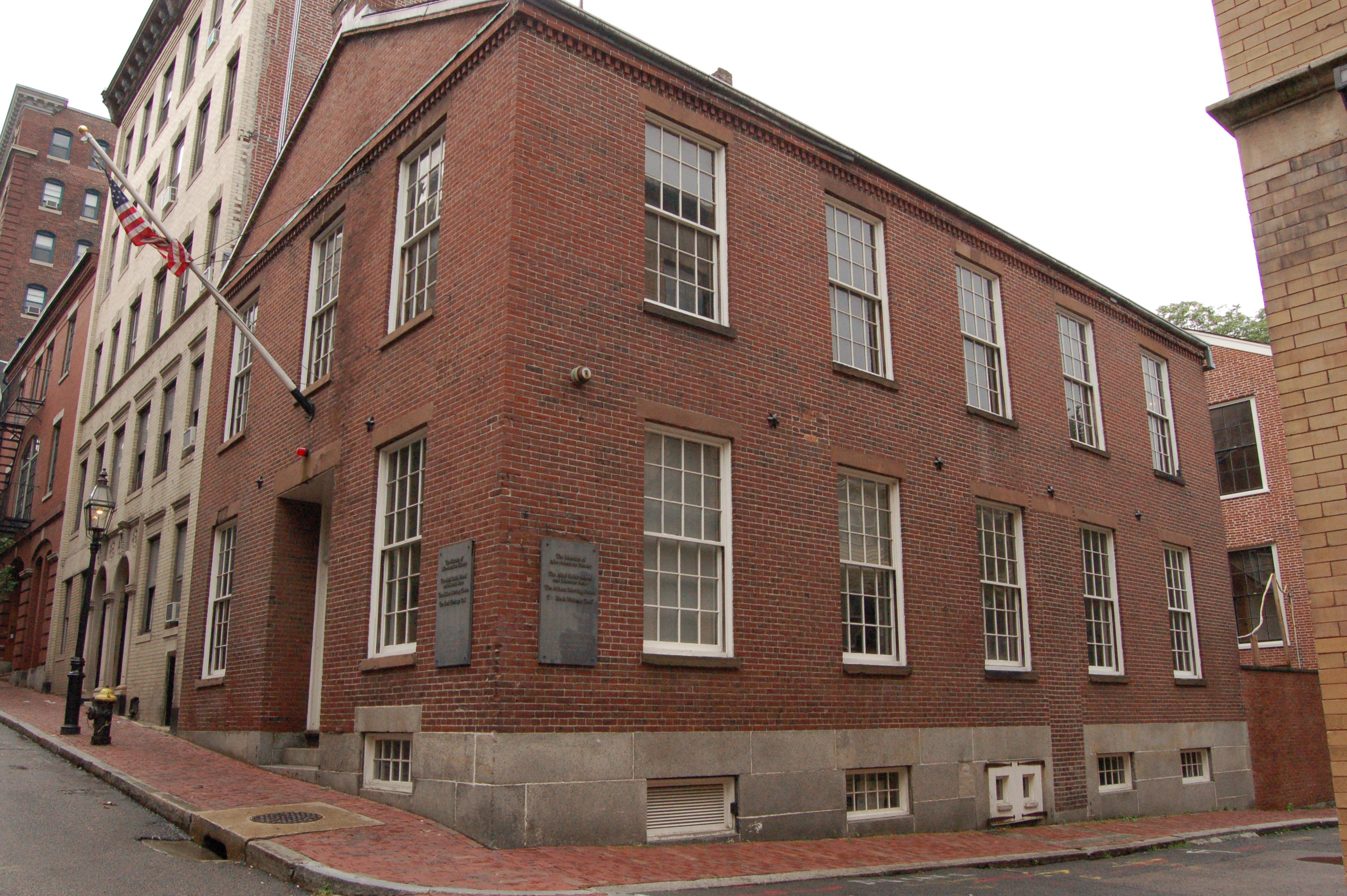 The Abiel Smith School